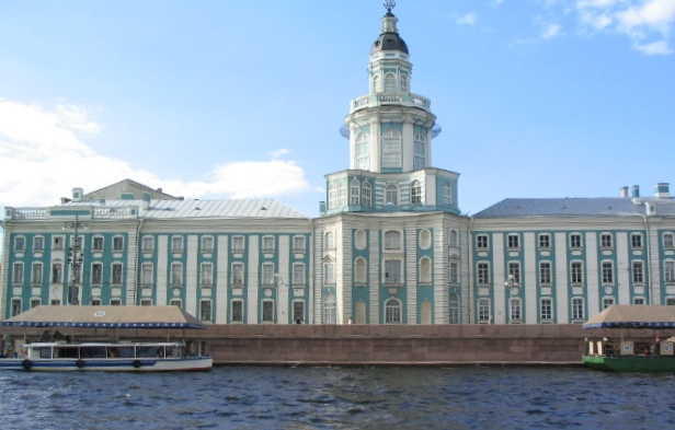 Petersburg: Akademie der Wissenschaften an der Newa